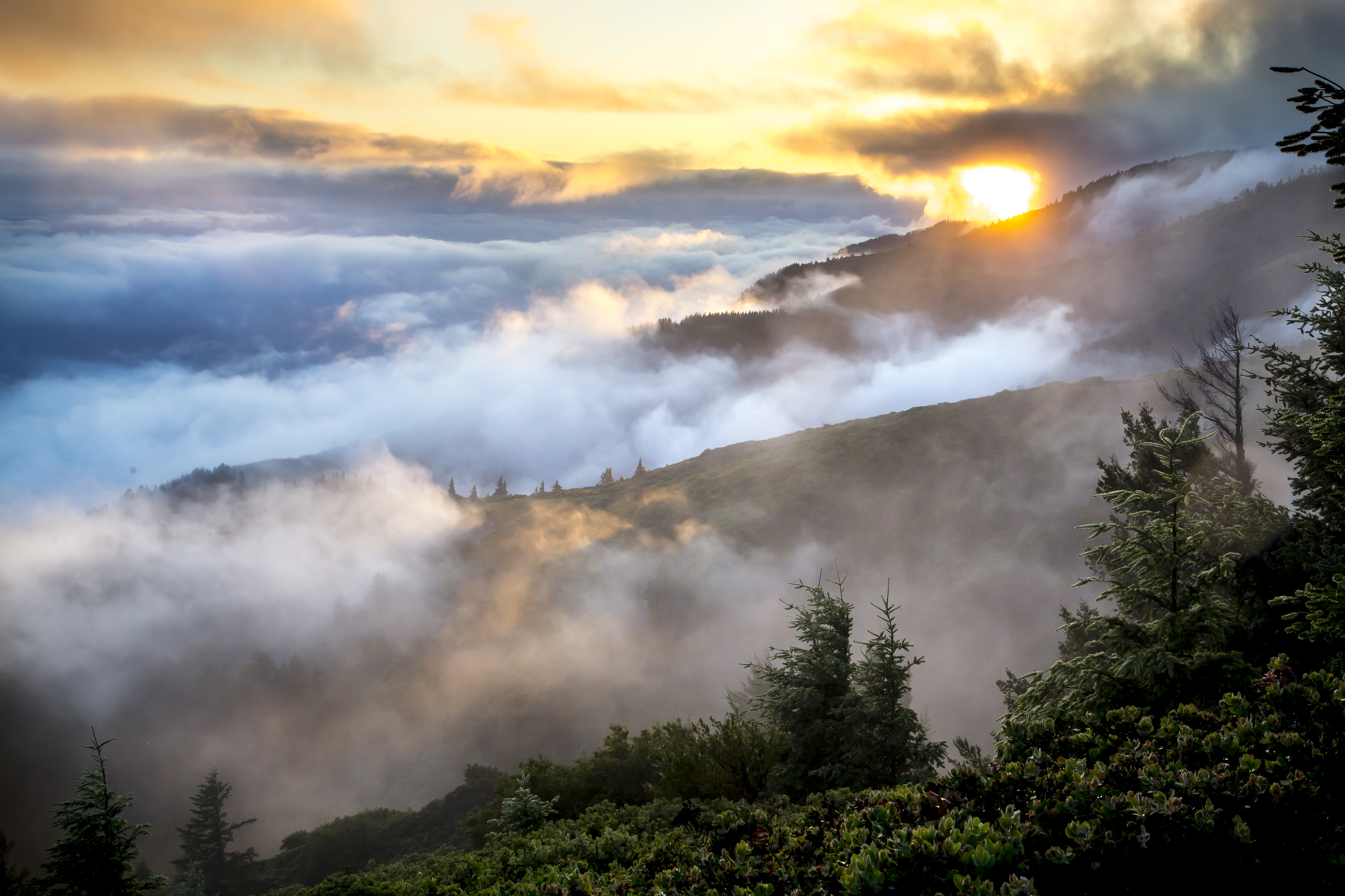 A spectacular meeting of land and sea is certainly the dominant feature of King Range National Conservation Area. Mountains seem to thrust straight out of the surf; a precipitous rise rarely surpassed on the continental U.S. coastline. King Peak, the highest point at 4,088 feet, is only three miles from the ocean. The King Range NCA covers 68,000 acres and extends along 35 miles of coastline between the mouth of the Mattole River and Sinkyone Wilderness State Park. Here the landscape was too rugged for highway building, forcing State Highway 1 and U.S. 101 inland. The remote region is known as California's Lost Coast, and is only accessed by a few back roads. The recreation opportunities here are as diverse as the landscape. The Douglas-fir peaks attract hikers, hunters, campers and mushroom collectors, while the coast beckons to surfers, anglers, beachcombers, and abalone divers to name a few. For more information visit: Photos/Videos: Bob Wick, BLM